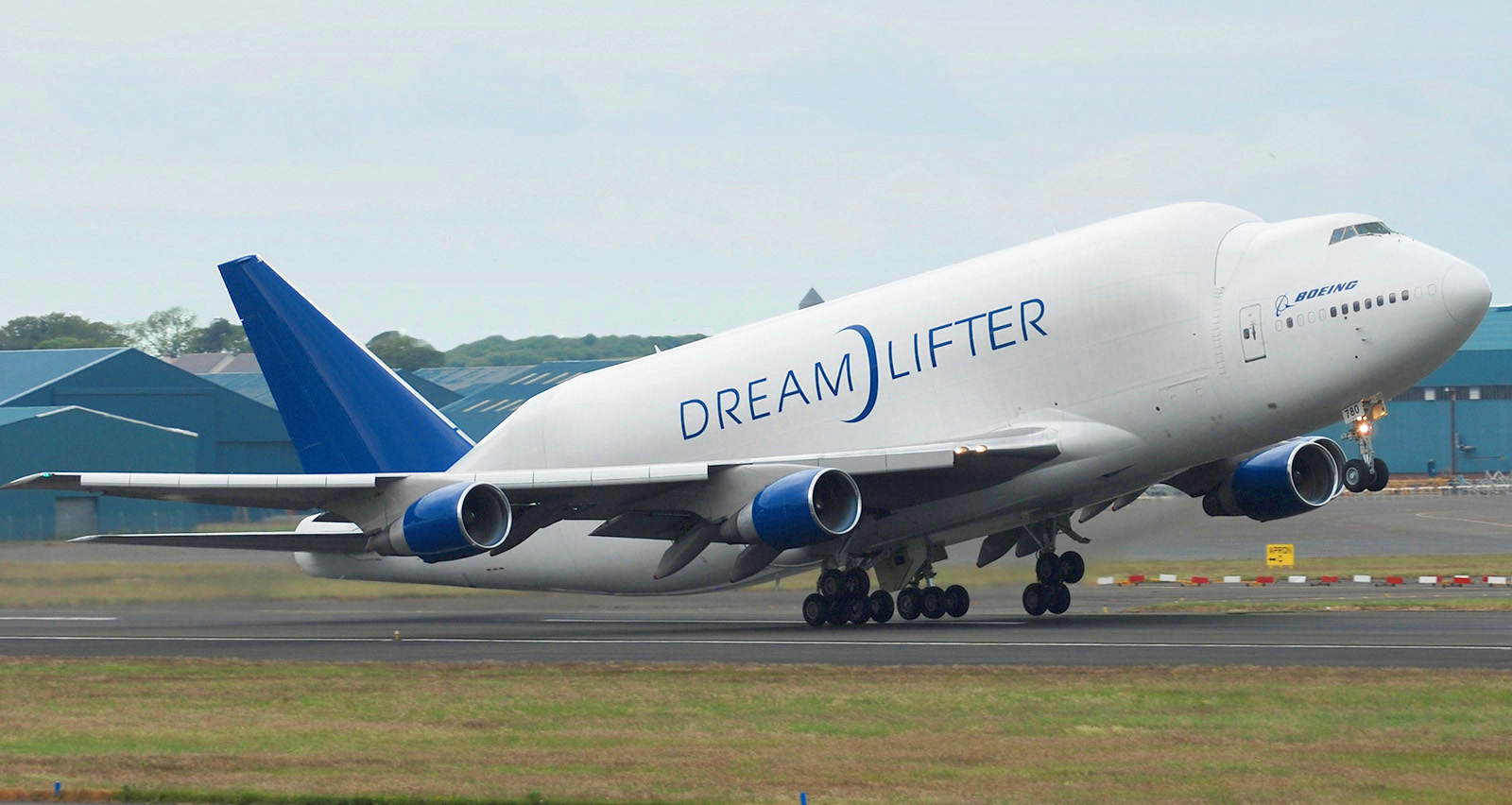 Boeing 747-409LCF Dreamlifter at Prestwick Airport (EGPK)